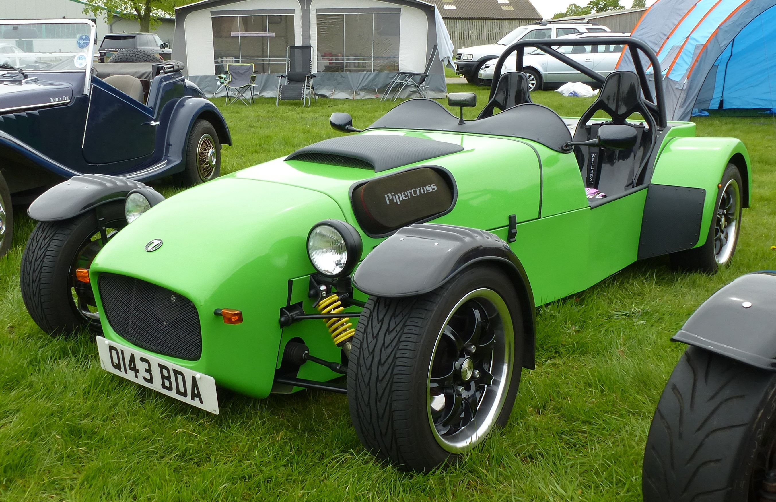 GTS Panther